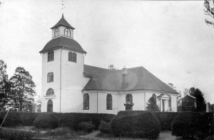 Övre Ullerud church seen from the south-west